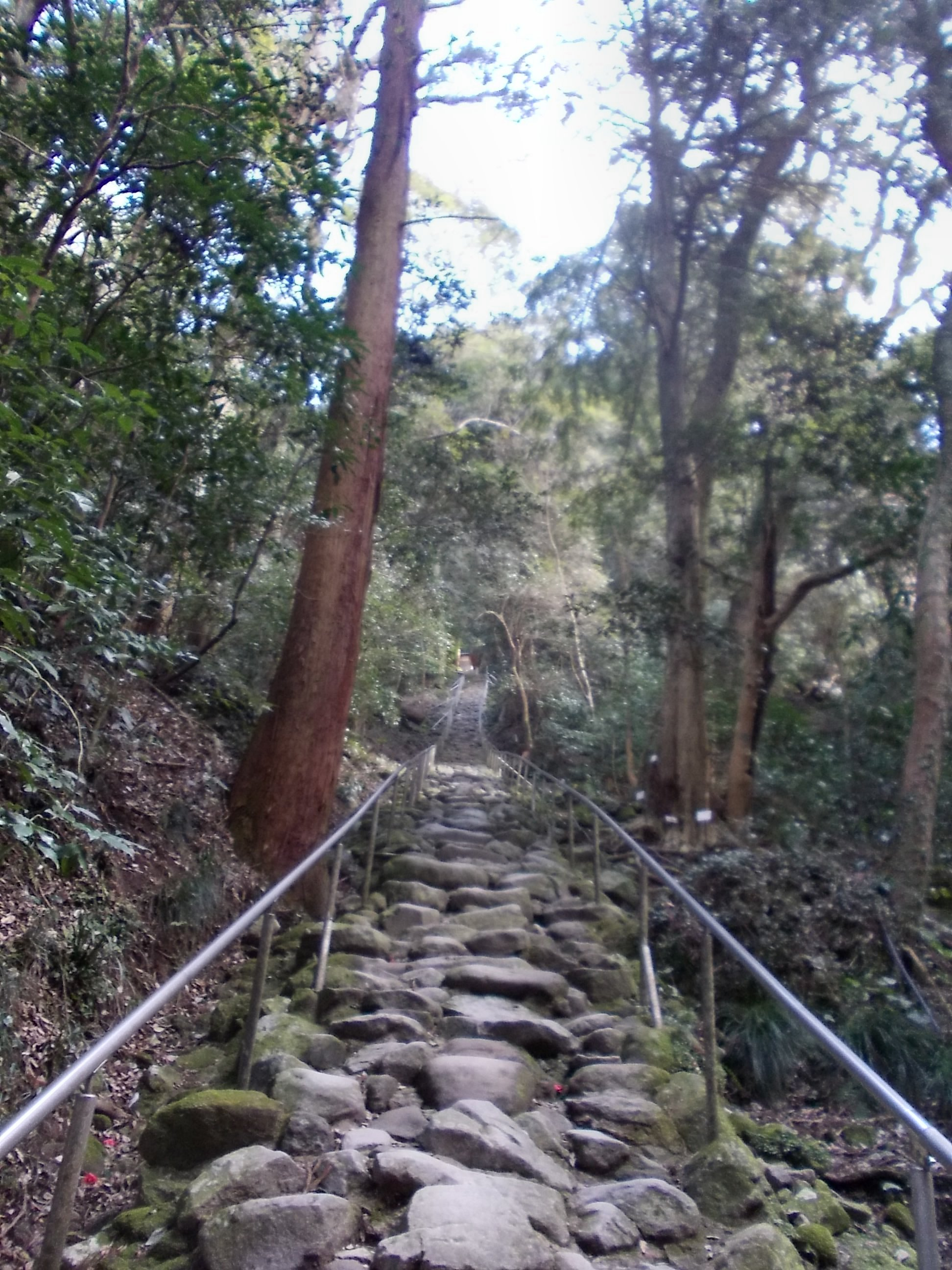 The 99 stone stairways of Kumano Magaibutsu in Bungotakada, Oita, Japan. It is said to be built by demons in one night.